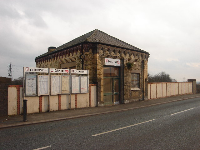 Daisy Hill railway station